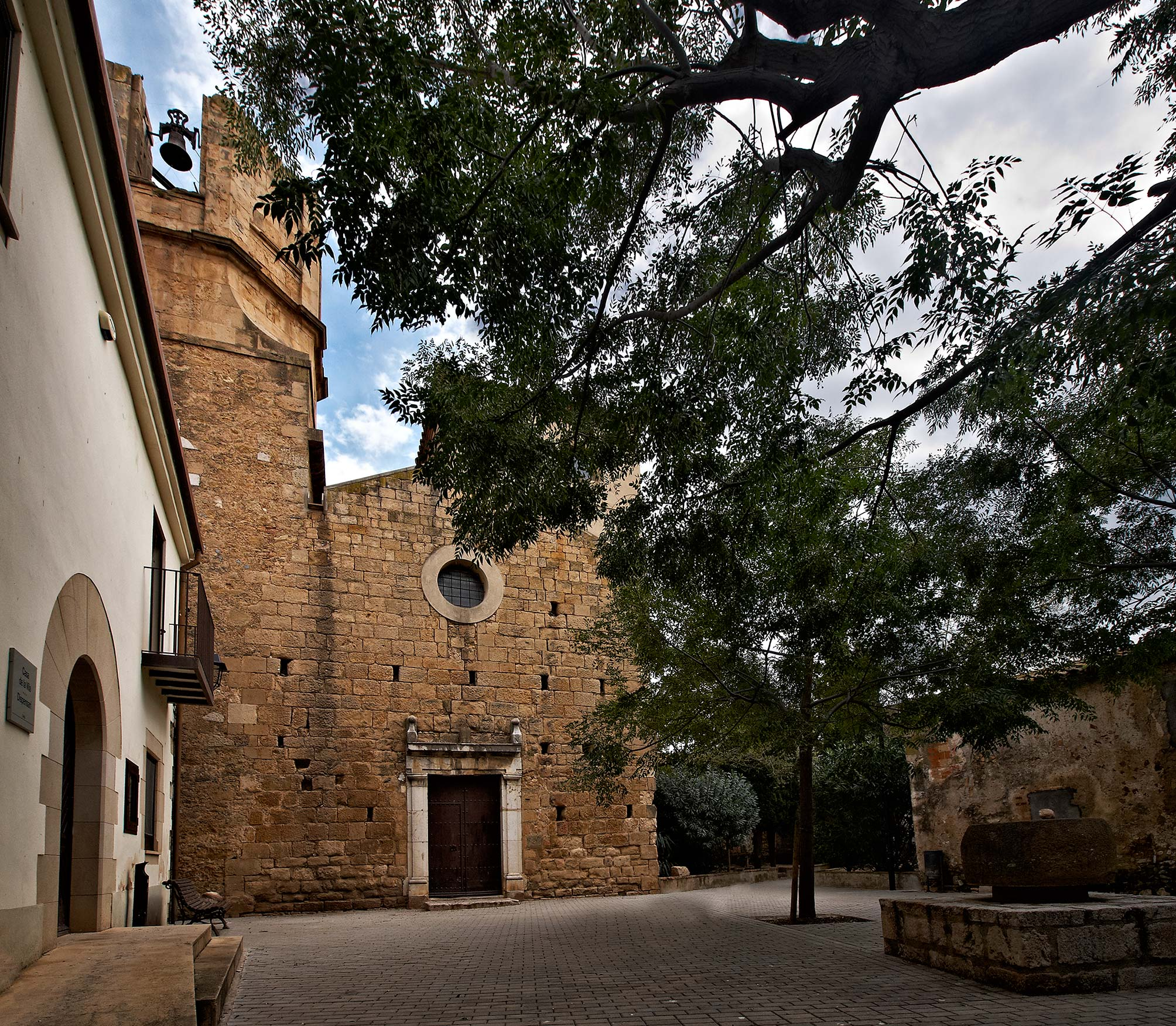 Sant Julià & Santa Basilisa church of Ordis, Catalonia, Spain